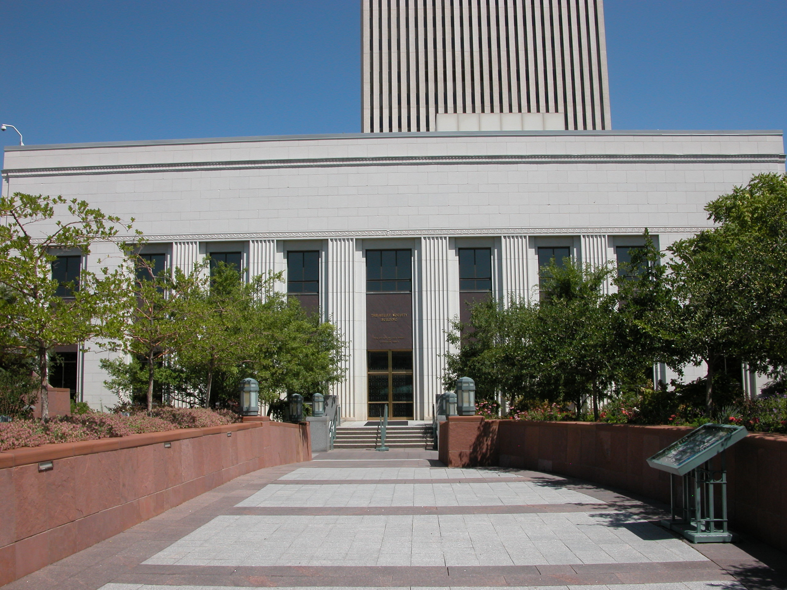 Relief Society Building, Salt Lake City, Utah.